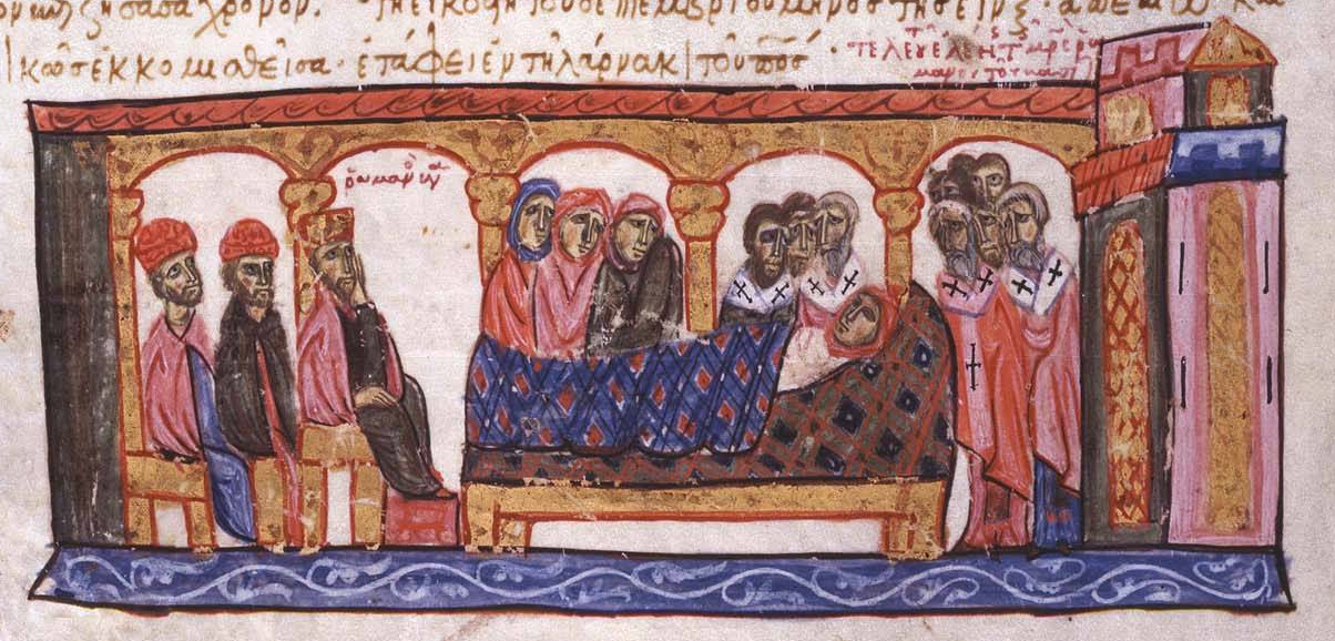 Death of Empress-dowager Helena Lekapene, in September 961